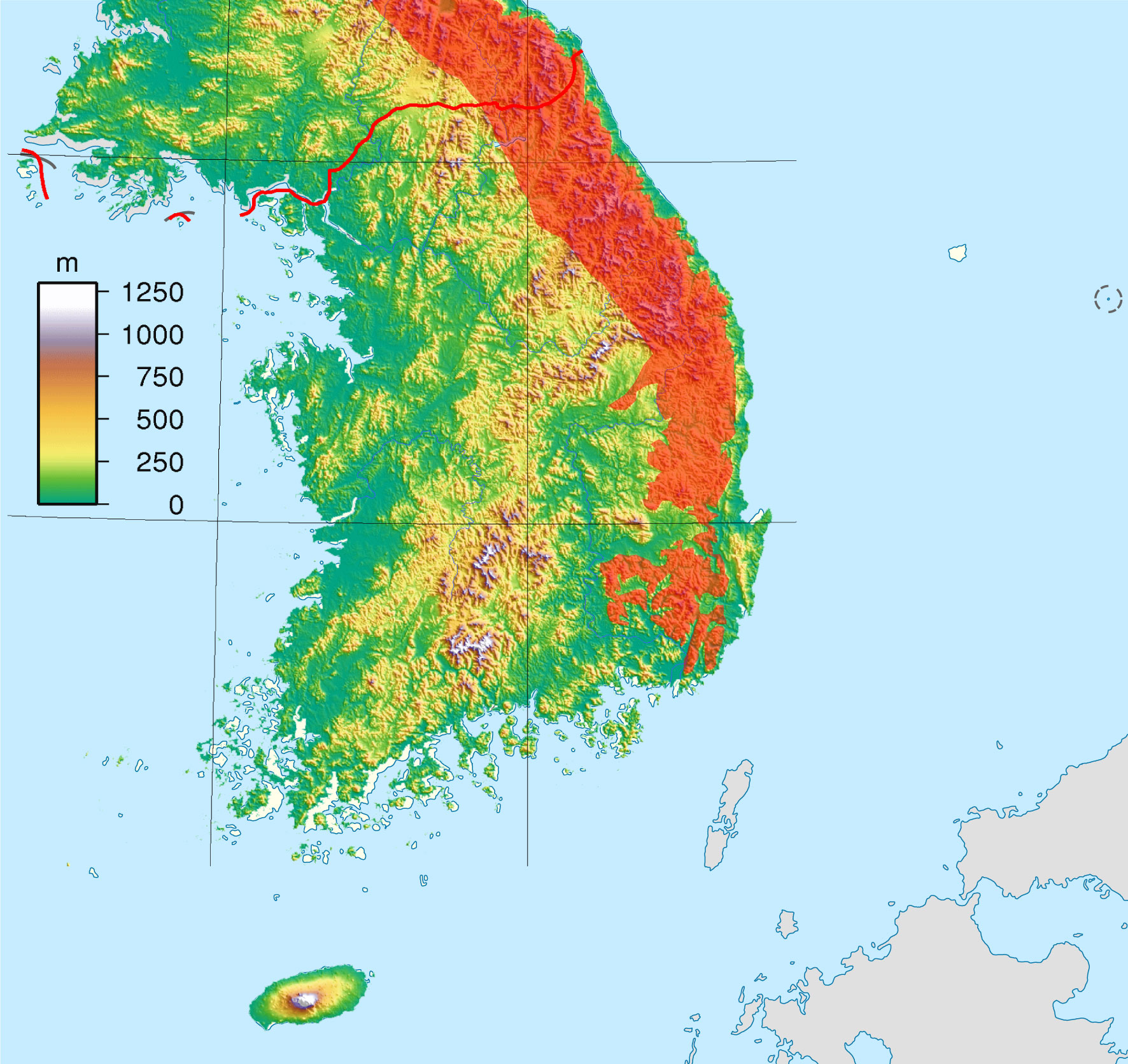 Topography map version designed to be used as an alternative map to File:South Korea location map.svg with the Taebaek Mountains region marked in red